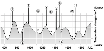 A graphical description of changes in temperature in Greenland from 500 – 1990 A.D. based on analysis of the deep ice core from Greenland and some historical events. The annual temperature changes are shown vertical in ˚C. The numbers are to be read horizontal: 1. From 700 to 750 A.D. people belonging to the Late Dorset Culture move into the area around Smith Sound, Ellesmere Island and Greenland north of Thule. 2. Norse settlement of Iceland starts in the second half of the 9th century. 3. Norse settlement of Greenland starts just before the year 1000. 4. Thule inuits move into northern Greenland in the 12th century. 5. Late Dorset culture disappears from Greenland in the second half of the 13th century. 6. The Western Settlement disappears in mid 14th century. 7. In 1408 is the Marriage in Hvalsey, the last known written document on the Norse in Greenland. 8. The Eastern Settlement disappears in mid 15th century. 9. John Cabot is the first European in the post-Norse era to visit Labrador - Newfoundland in 1497. 10. “Little Ice Age” from ca 1600 to mid 18th century. 11. The Danish-Norwegian priest, Hans Egede, arrives in Greenland in 1721.